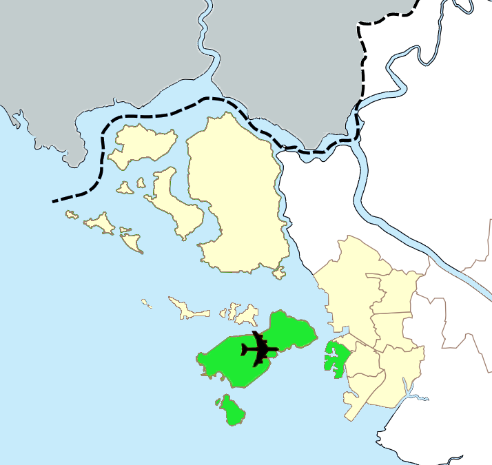 Location of Jung-gu